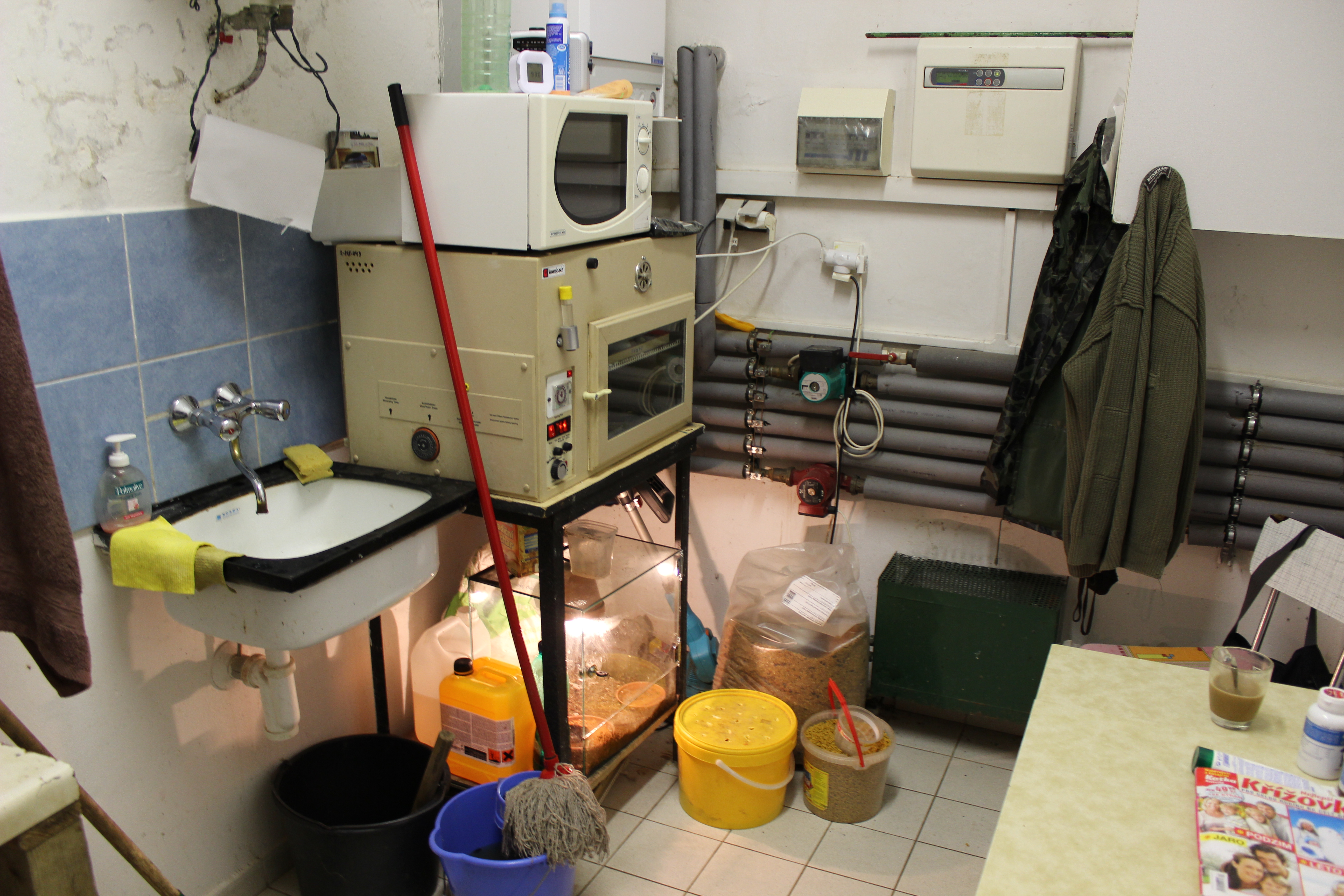 Food preparation in Zoo in Děčín, Ústí nad Labem Region, Czech Republic. Thanks for allowing pictures owned by a local zoologist Roman Řehák.